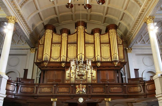 St George's Church, Hanover Square, London W1 - Organ